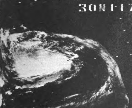 typhoon Ruby